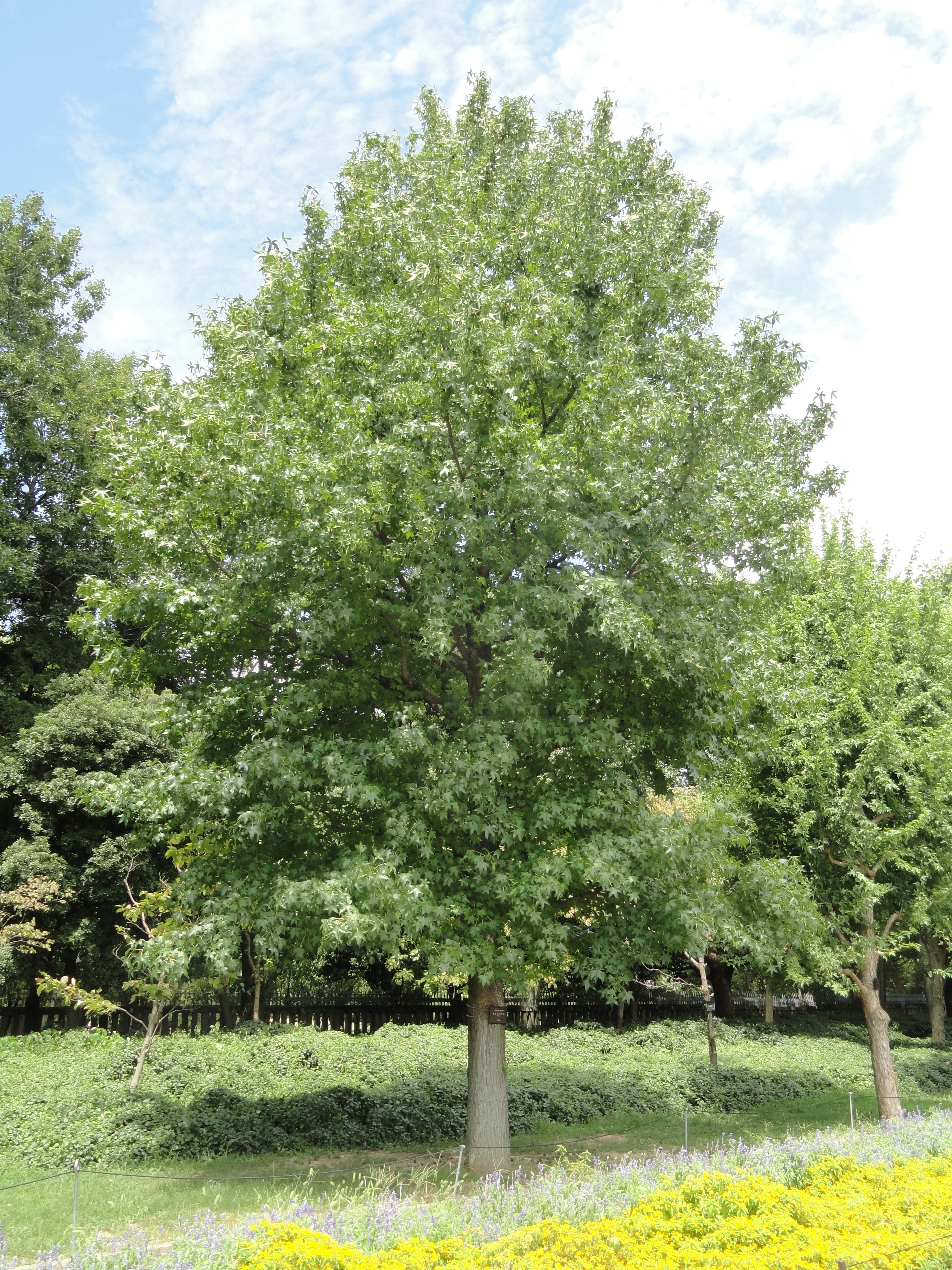 Botanical specimen in the Nagai Botanical Garden, Osaka, Japan.